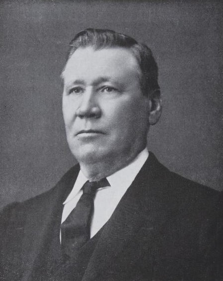 Picture of John Downer.